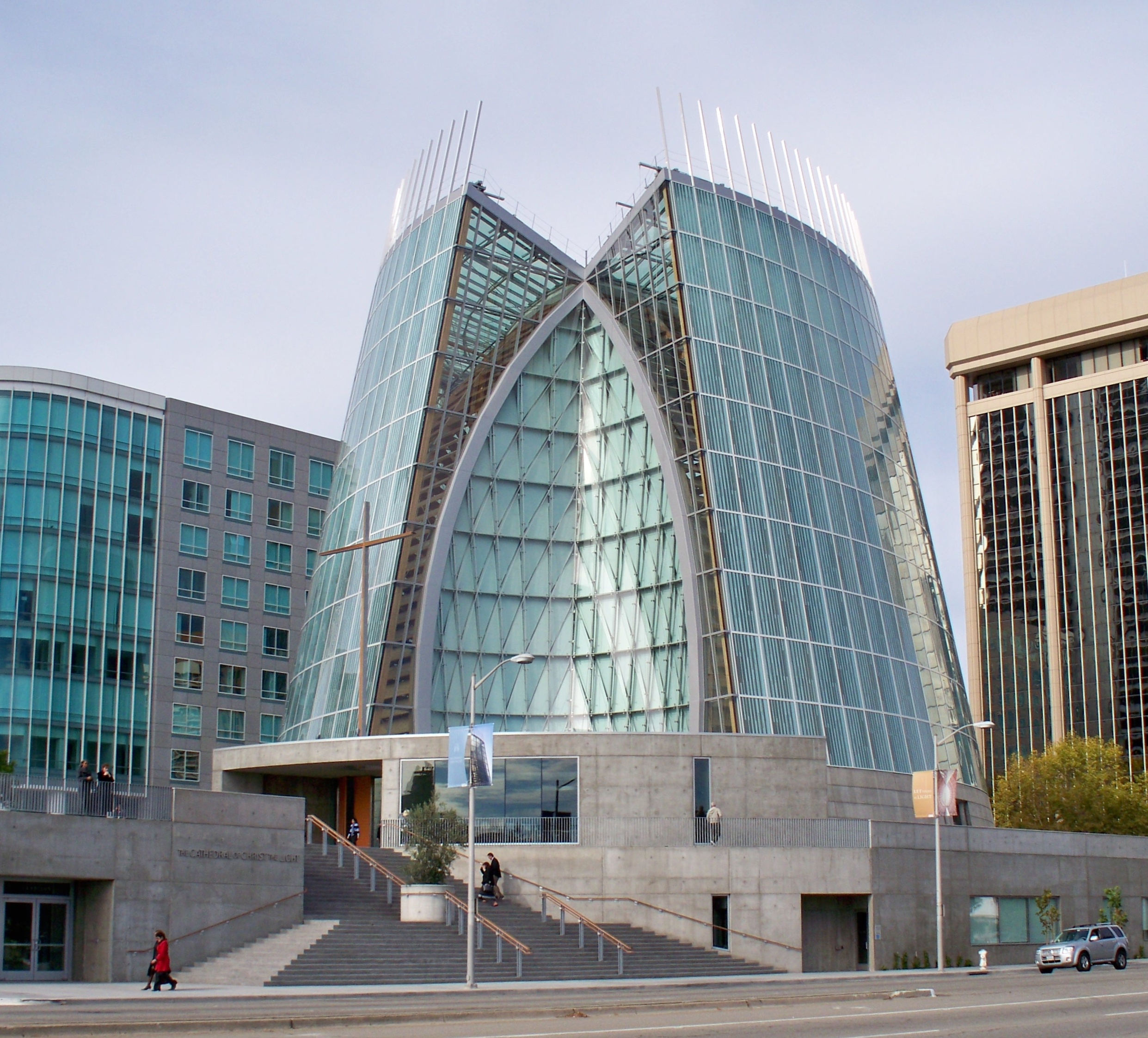 Cathedral of Christ the Light, Oakland, CA